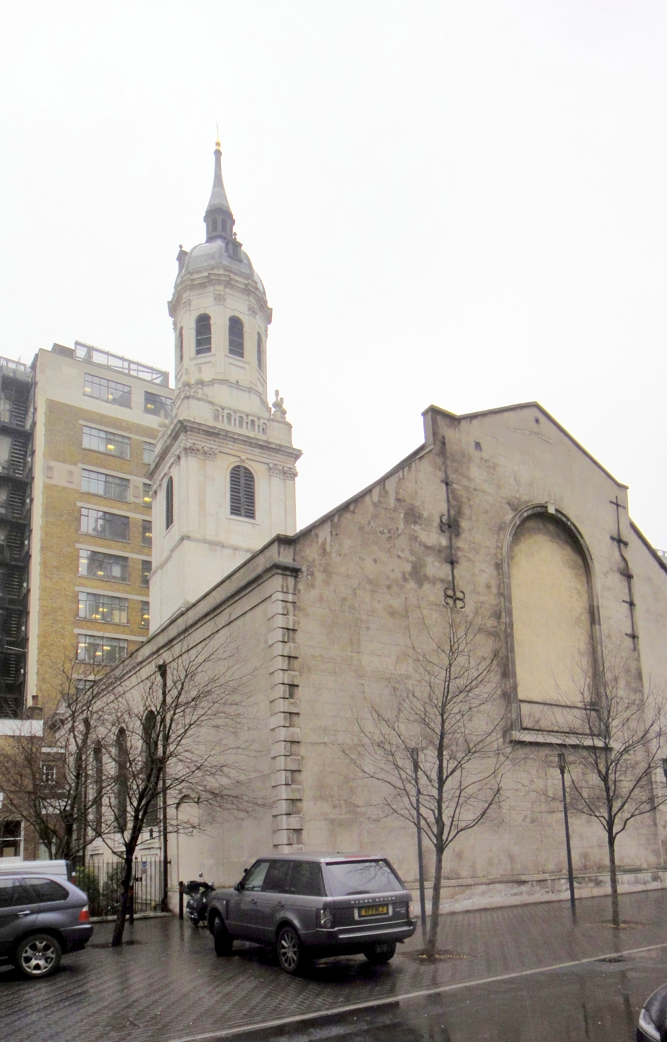 Rainy london